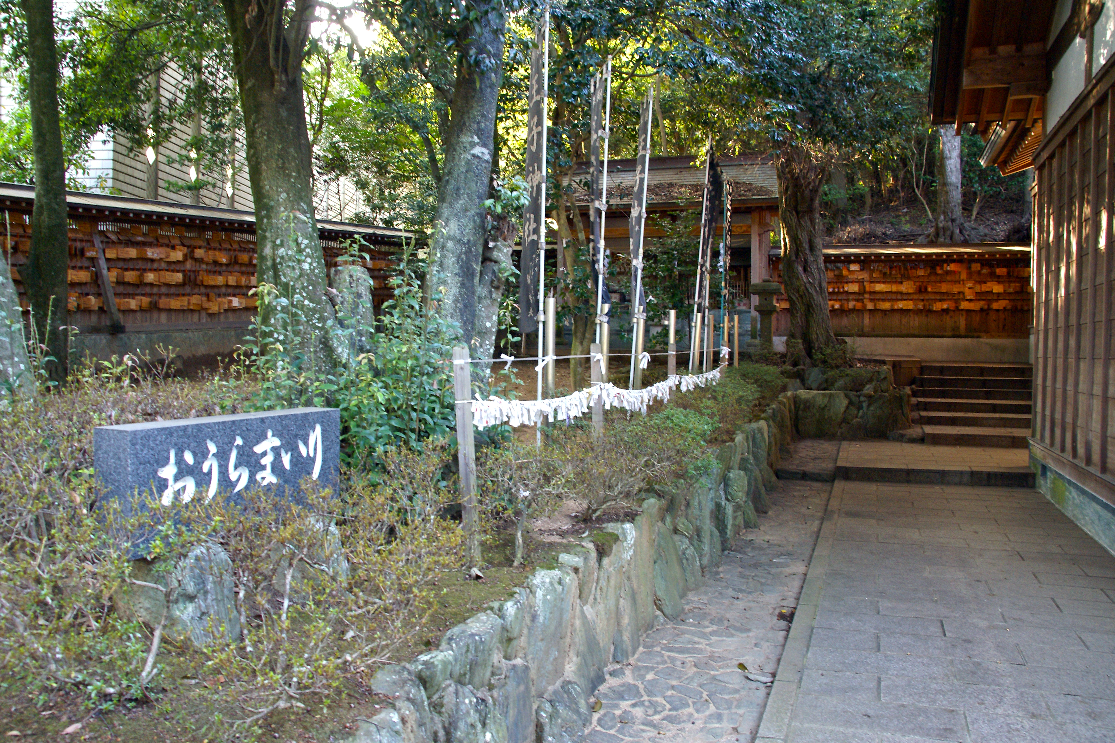 Oji-jinja in Tokushima, Tokushima prefecture, Japan.